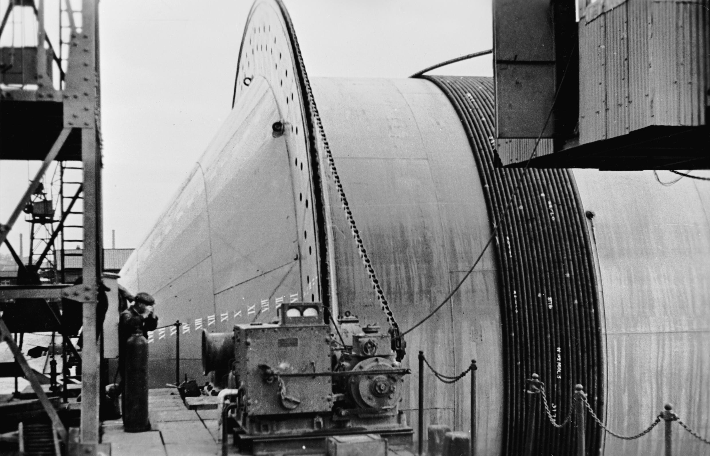 Petrol pipe for Operation PLUTO (Pipe Lines Under The Ocean) being wound onto a 'ConunDrum' pipe-laying device, June 1944.